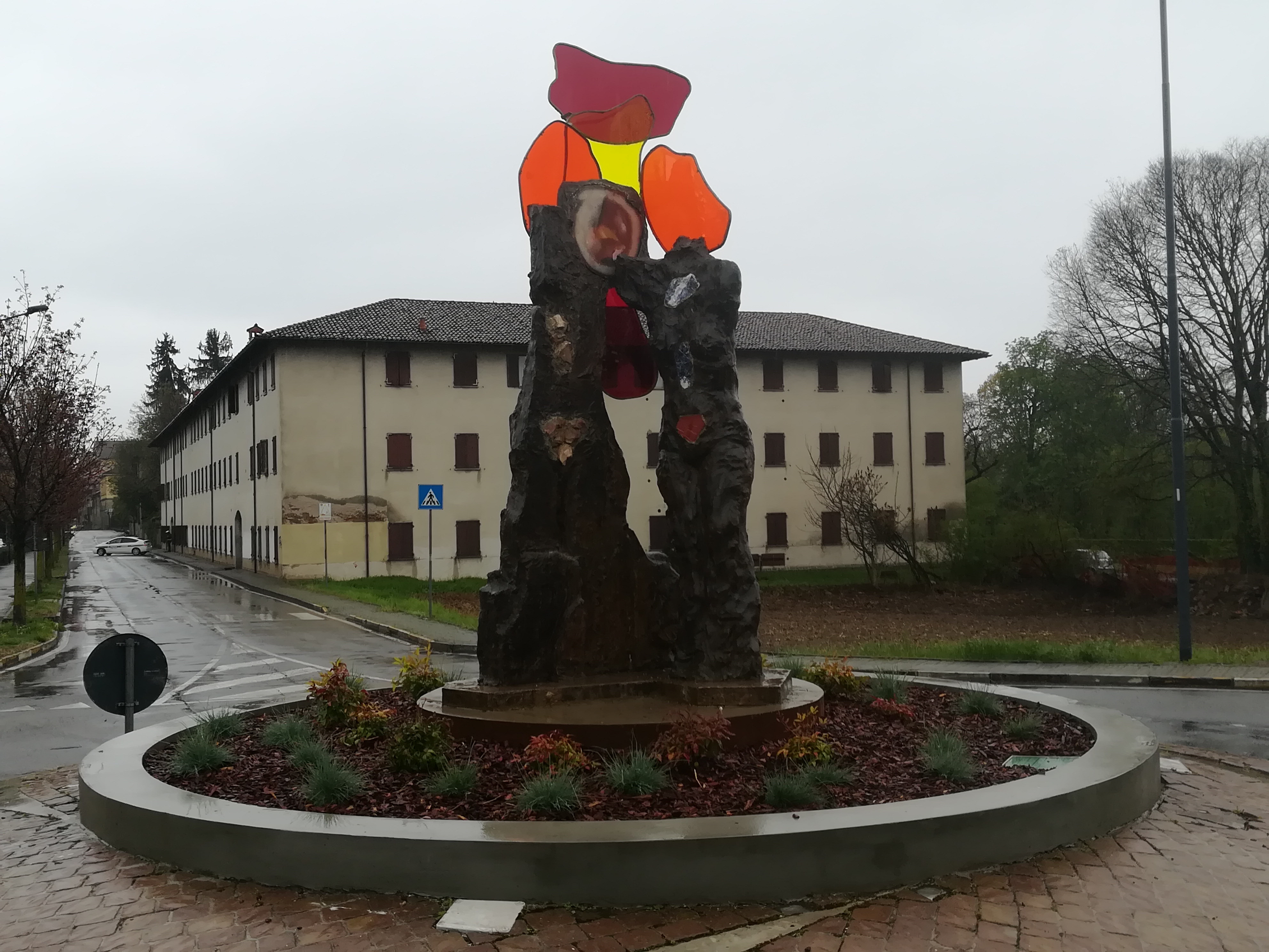 Monument DUE ("TWO") by Bruno Freddi in Osnago, photographed on the day of its inauguration (14 April 2019)